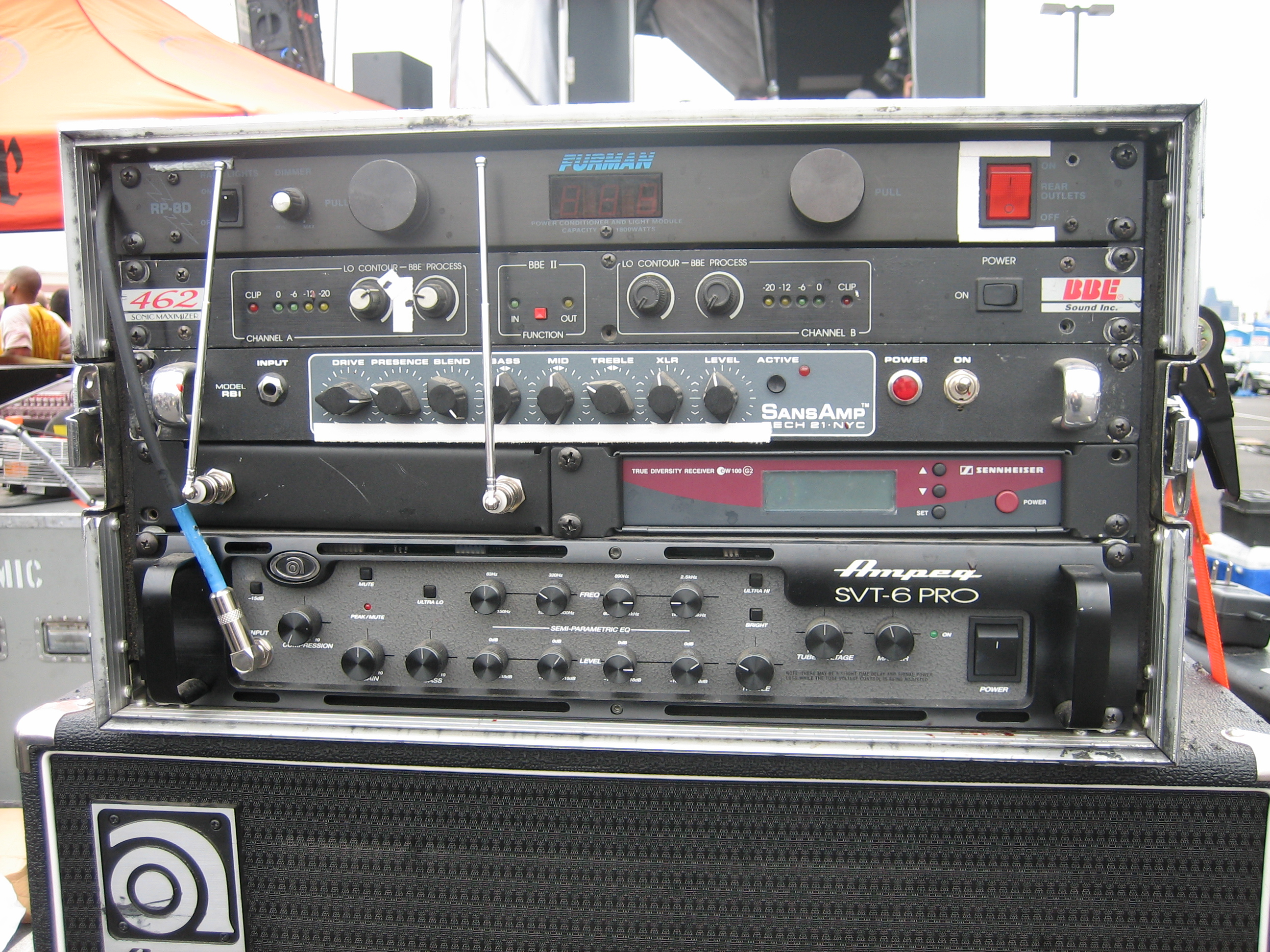 Behemoth - Bass rack Furman RP-80 Power Conditioner BBE 462 Sonic Maximizer TECH21 SansAmp RBI Sennheiser ew100G2 True Diversity Receiver Ampeg SVT-6PRO Ampeg Cab.bass rig